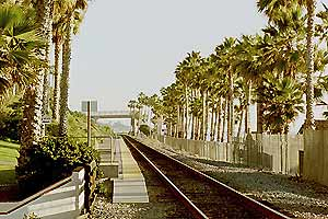 Looking south, towards San Diego, from San Clemente Pier.